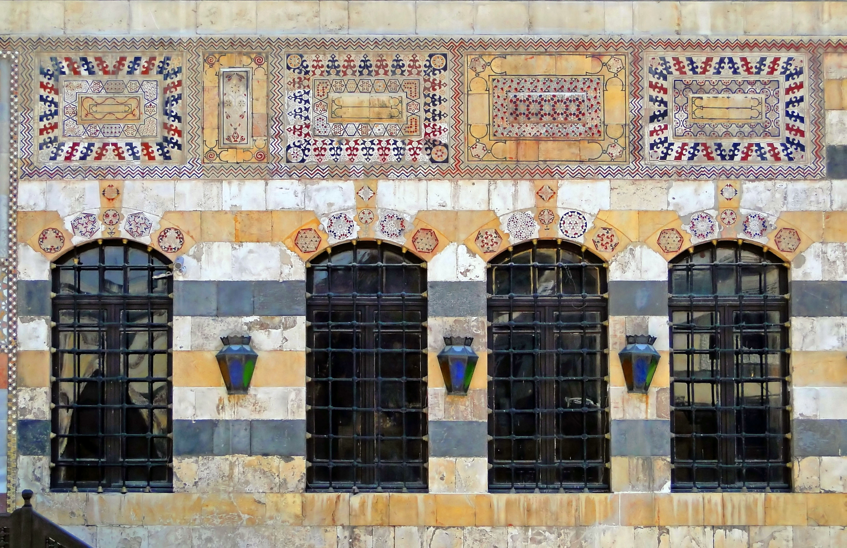 Detail of a facade of Azem Palace, Damascus, Syria